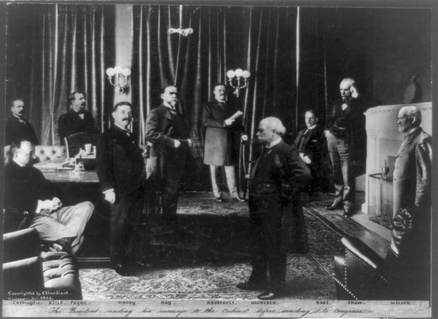 Roosevelt Cabinet group the president reading his message to the Cabinet before sending it to Congress.